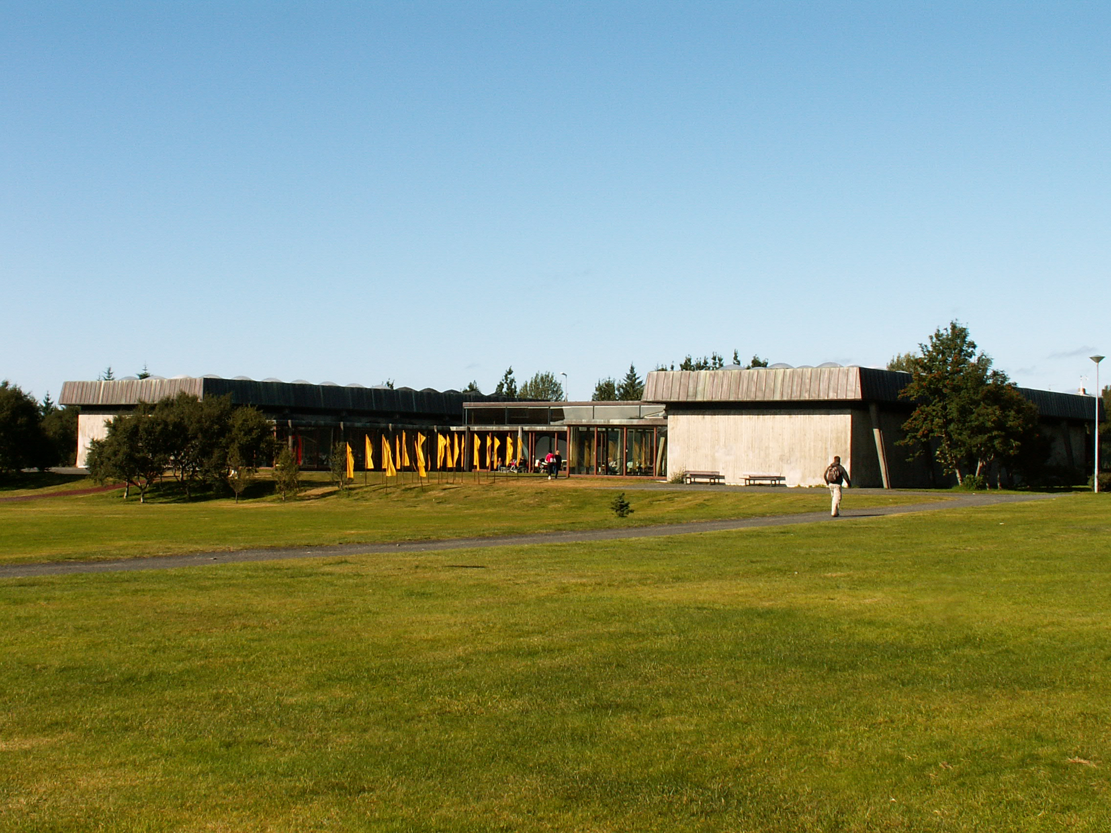 Reykjavik Kjarvalsstaðir (Arts Museum)